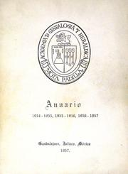 Cover of Academia de Genealogía y Heráldica Mota-Padilla's "Anuario 1954-57"